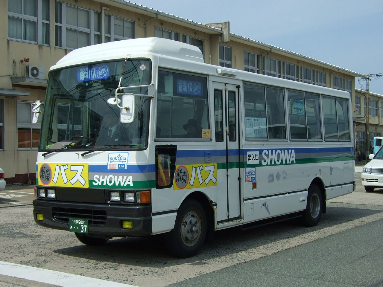 Showa bus. See below.